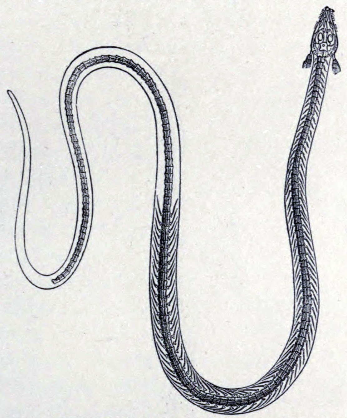 Phlegethontia longissima (formerly Dolichosoma) restoration